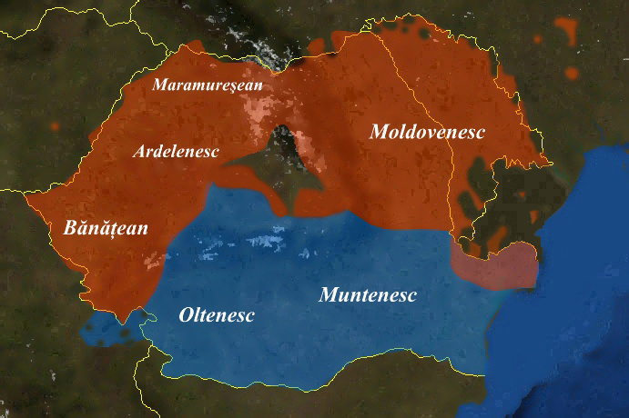 This map has been uploaded by Electionworld from to enable the Wikimedia Atlas of the World . Original uploader to was Constantzeanu, known as Constantzeanu at . Electionworld is not the creator of this map. Licensing information is below.